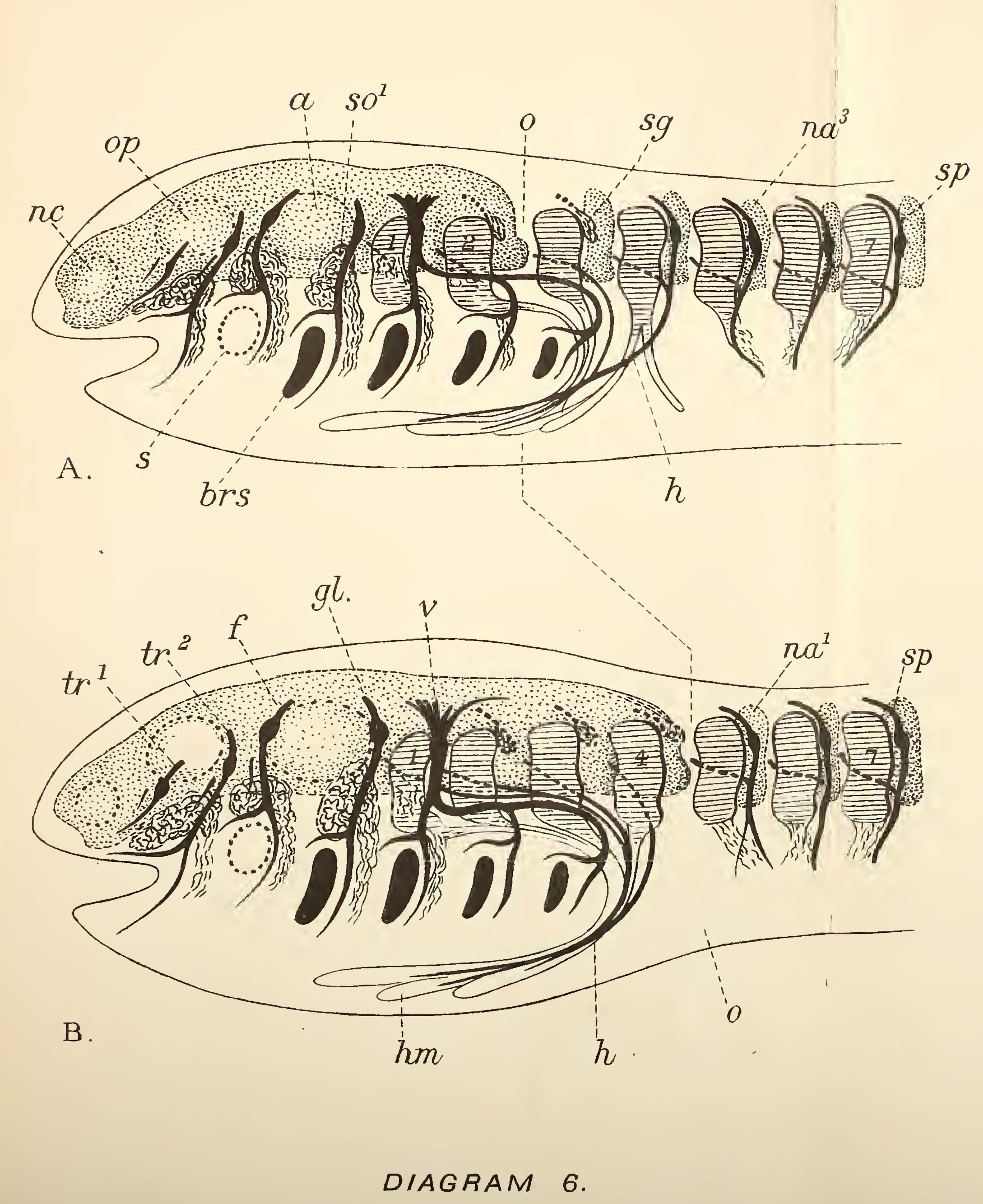 The head-region of an Amphibian A, and an Amniote (mammal) B, showing segmentation. The broken line o-o indicates the hind limit of the occipital region. 1-7 myotomes. a. Auditory capsule, br.s. Bronchial slit. f. Facial nerve. gl. Glosso-pharyngeal. h. Hypoglossal. h.m. Hypoglossal musculature, n.a. Neural arch. n.c. Nasal capsule, o.p. Optic capsule, s. Tympanum, s.g. Vestigial spinal ganglion, s. o. First metaotic somite, sp. Spinal nerve. tr1. Profundus, tr2 Trigeminal. v. vagus nerve. Diagram 6 of Plate 15 from Metameric Segmentation and Homology